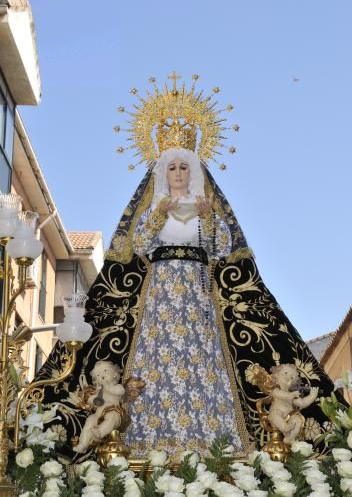 Ntra. Señora de la Soledad.